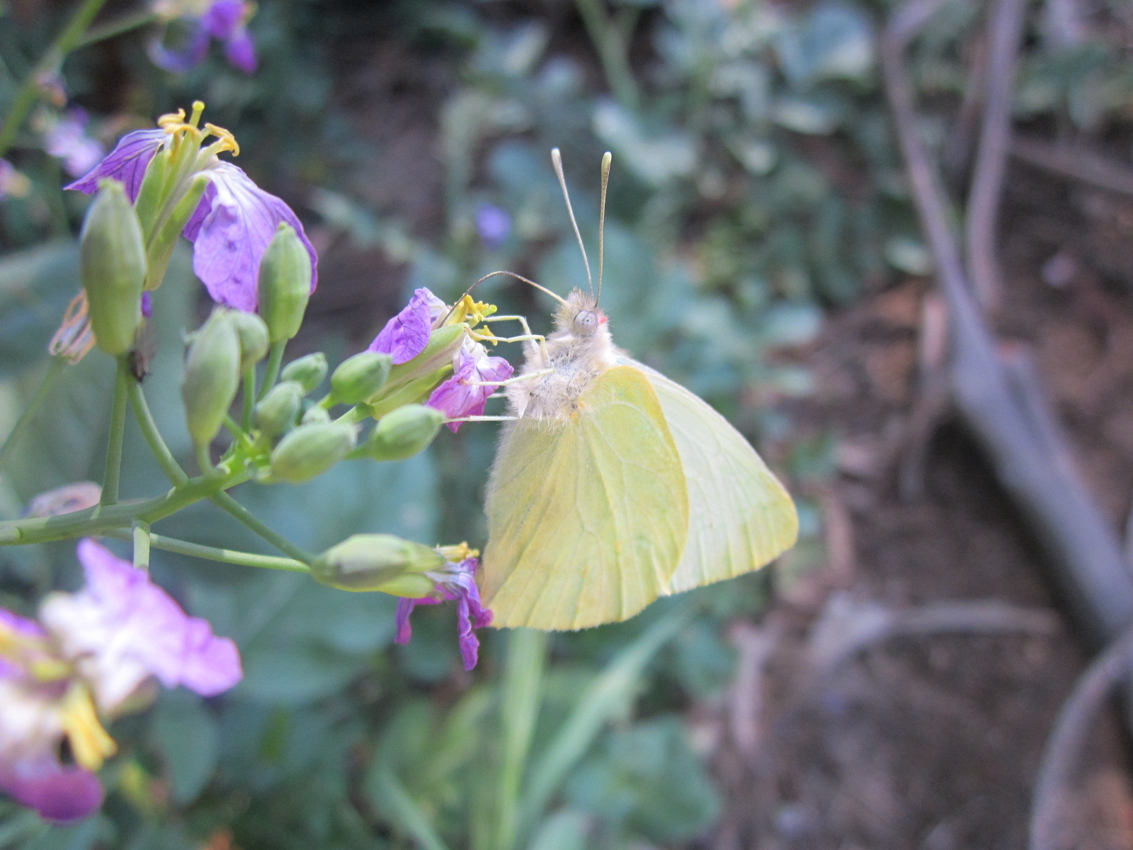 Mathania leucothea. Species of insect.